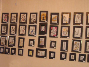 Simonova